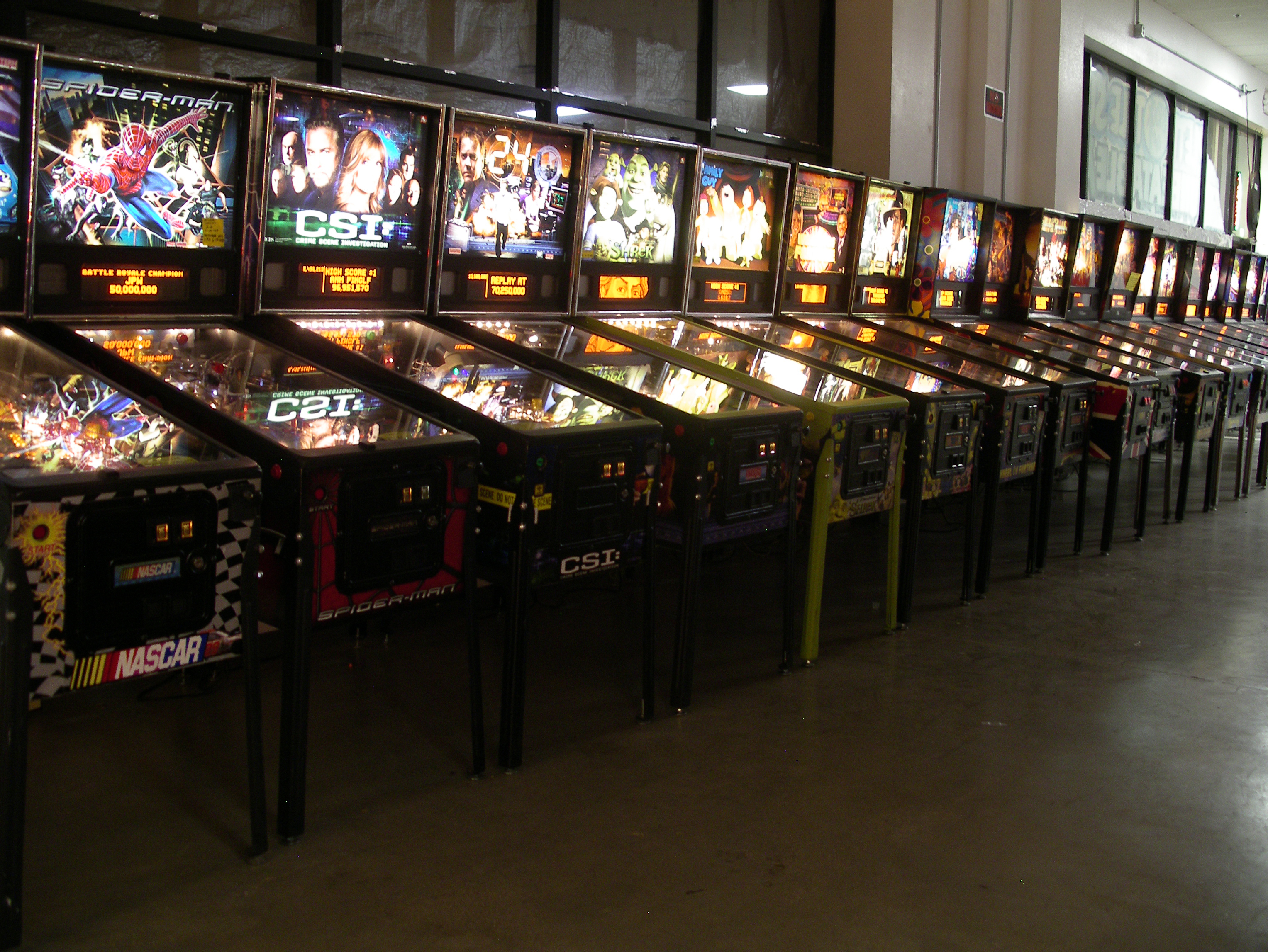 new games row at the Pinball Hall of Fame